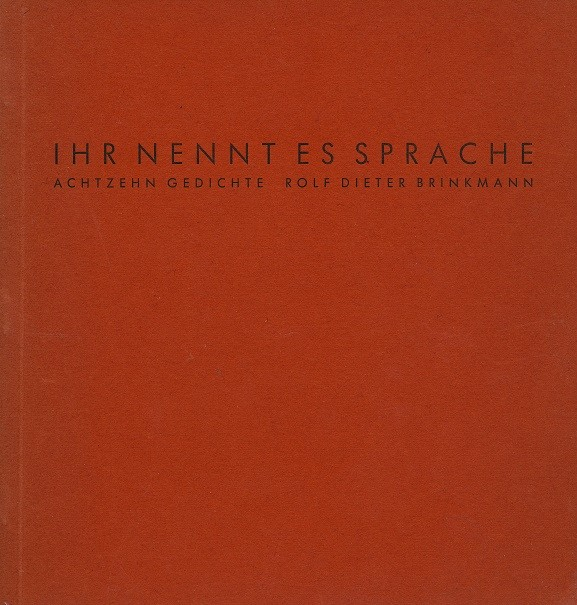 Rolf Dieter Brinkmann: Ihr nennt es Sprache. 18 Gedichte. Leverkusen, Willbrand, 1962. Erste Ausgabe von Brinkmanns erster Veröffentlichung